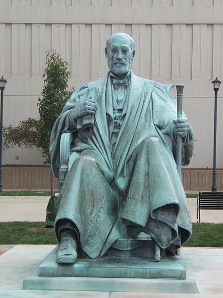 I took this picture myself and hereby grant my approval for anyone to use it in any fashion. Draeco 23:50, 4 November 2006 (UTC)